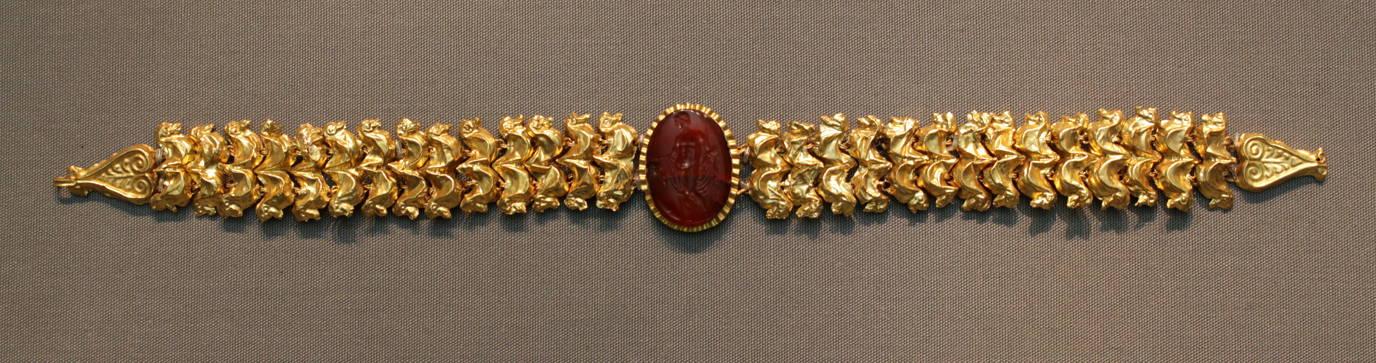 Roman jewellery, gold and intaglio on carnelian, 1st to 3rd century AD. Altes Museum, Berlin.